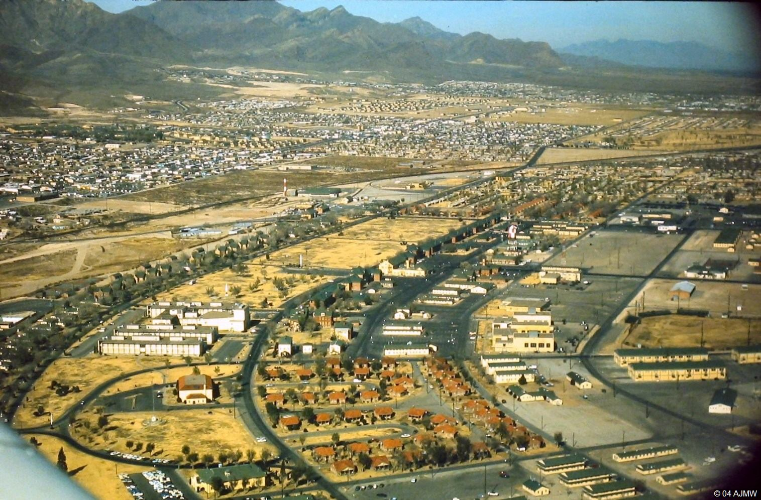 Aerial view of Fort Bliss 1968 (with Franklin mountains in the back ground).